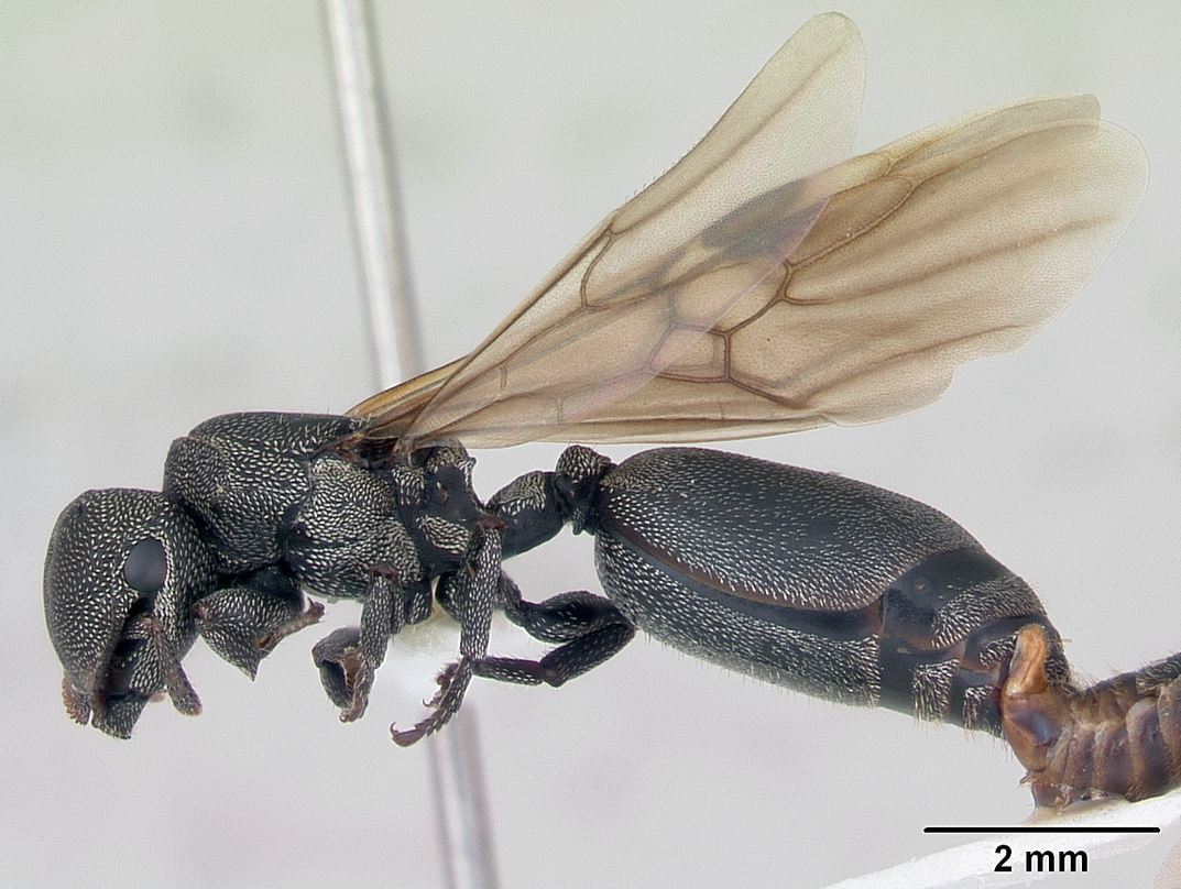 Profile view of queen ant (note that the gliding workers do not have wings) Cephalotes depressus specimen casent0173674.